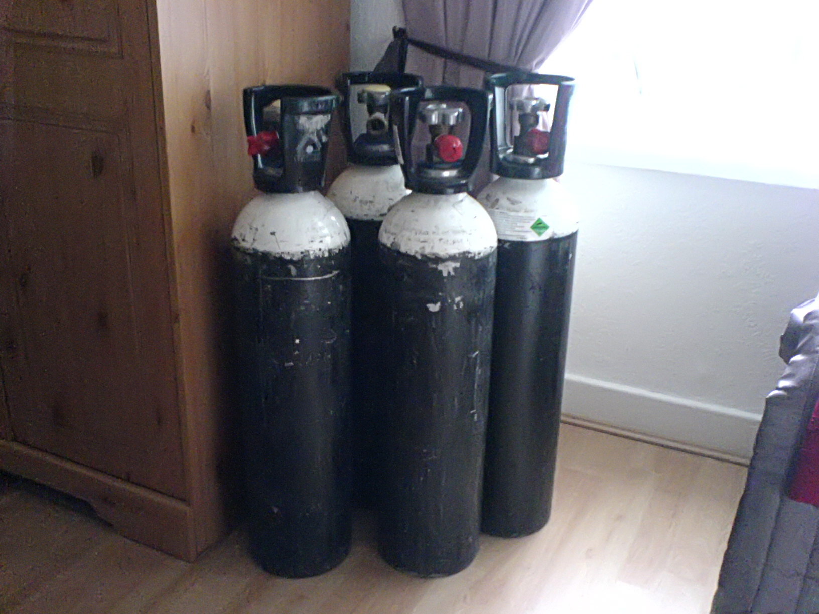 A picture I took on 24 December 2007 showing Oxygen canisters in the home of an emphysema patient. Use of this image outside of Wikipedia requires that it be attributed to me, Patrick McAleer.